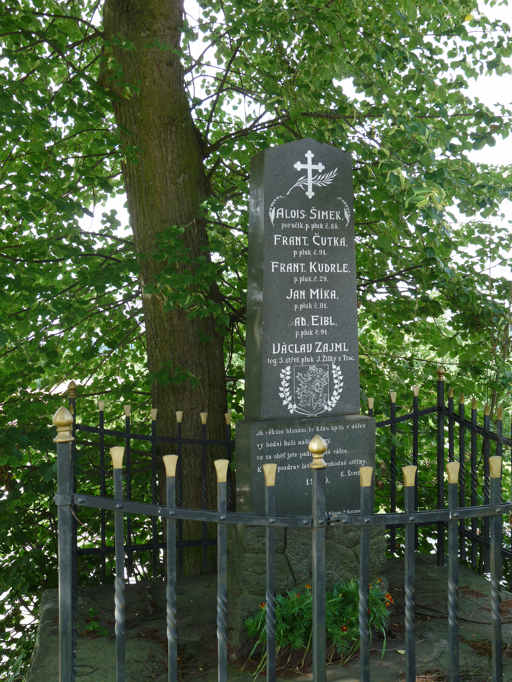 Memorial to those killed in the Great War in the village of Ostrolovský Újezd, České Budějovice District, Czech Republic.